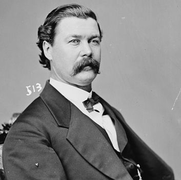 Kentucky Congressman John M. Rice